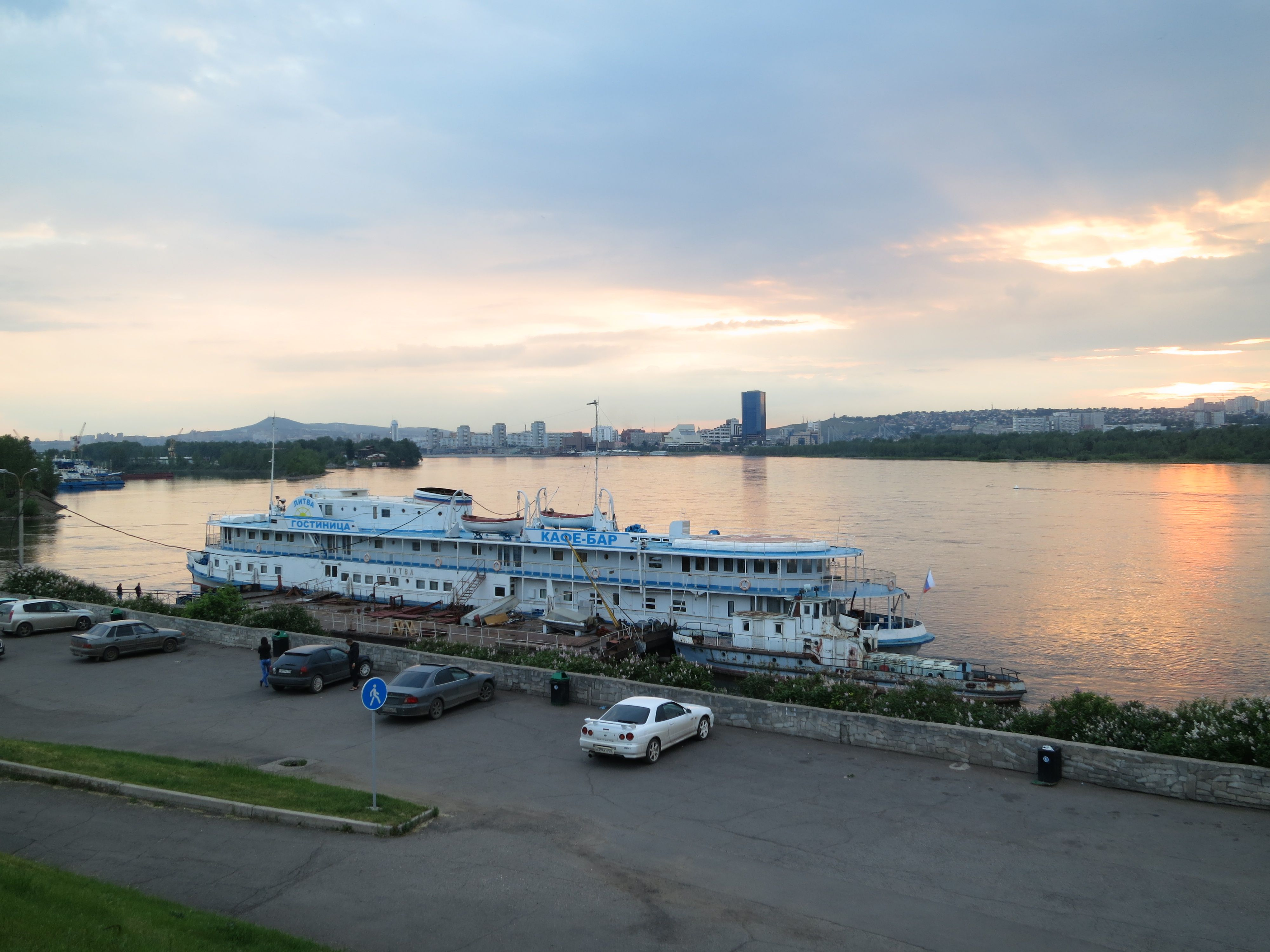 Hotel "Litva" in Krasnoyarsk